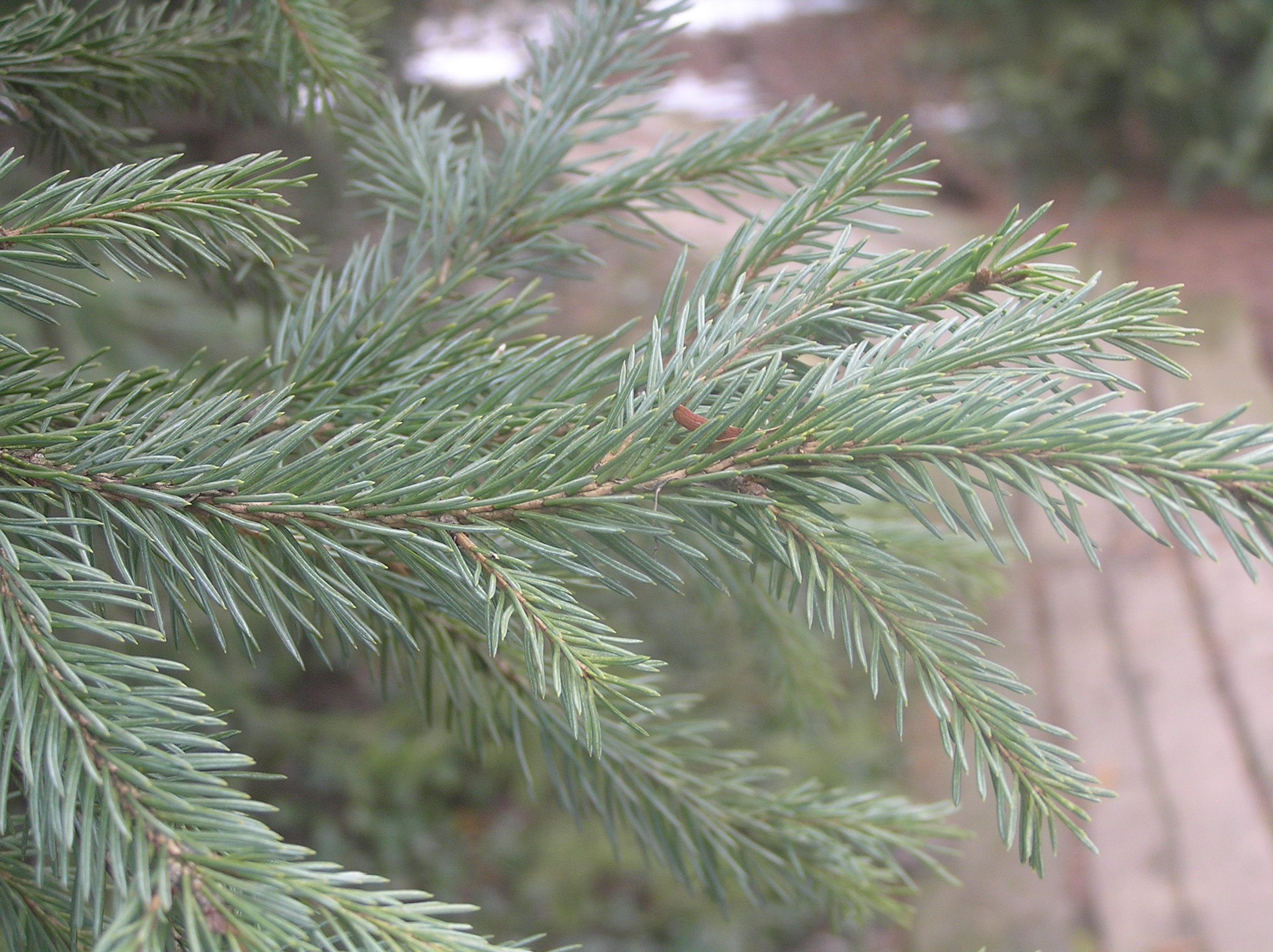 Picea obovata, cultivated in Brno, Czech Republic